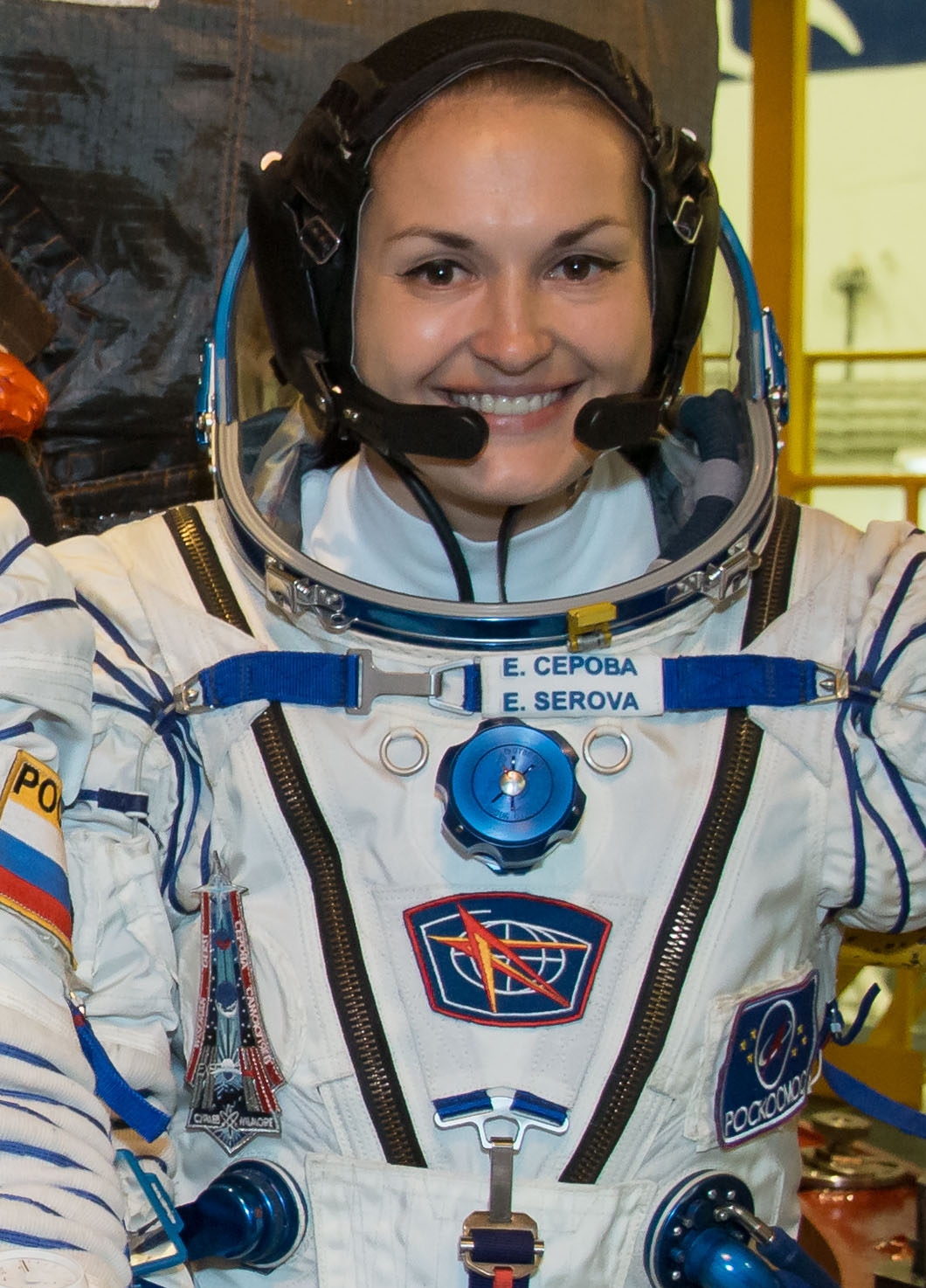 Flight Engineer Elena Serova of Roscosmos pose for pictures Sept. 13 in front of Soyuz TMA-14M spacecraft during the first of two "fit check" dress rehearsal activities